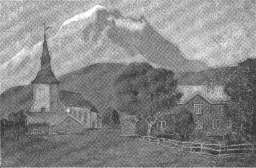 Alstahaug. Drawing by Thorolf Holmboe